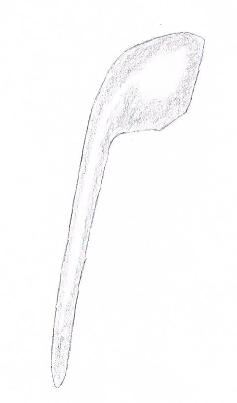 Lil-Lil